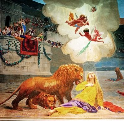 Mural on the left side in Basilica Saint Euphemia in Rovinj, Croatia